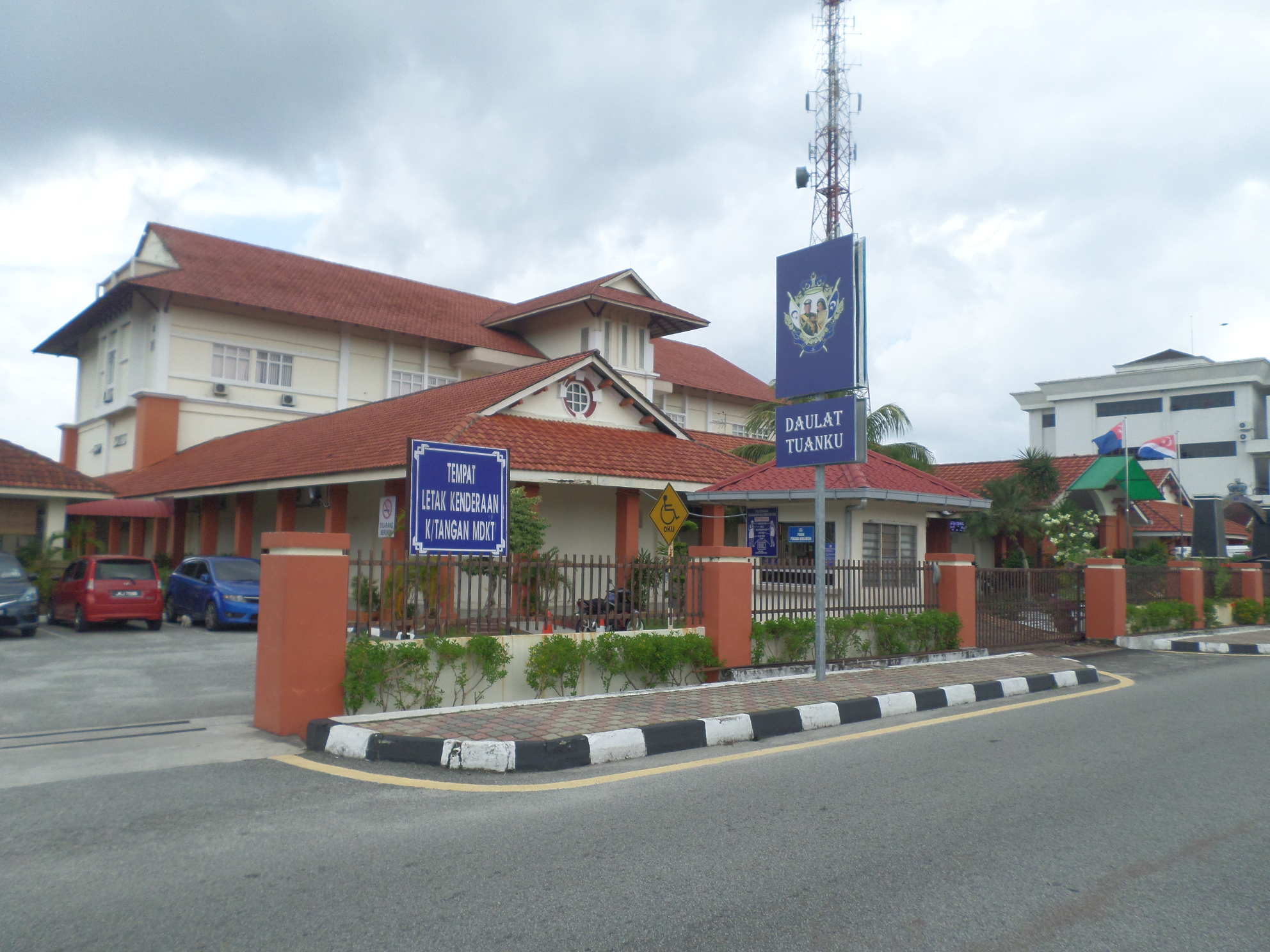 Kota Tinggi District Council, Kota Tinggi, Johor, Malaysia